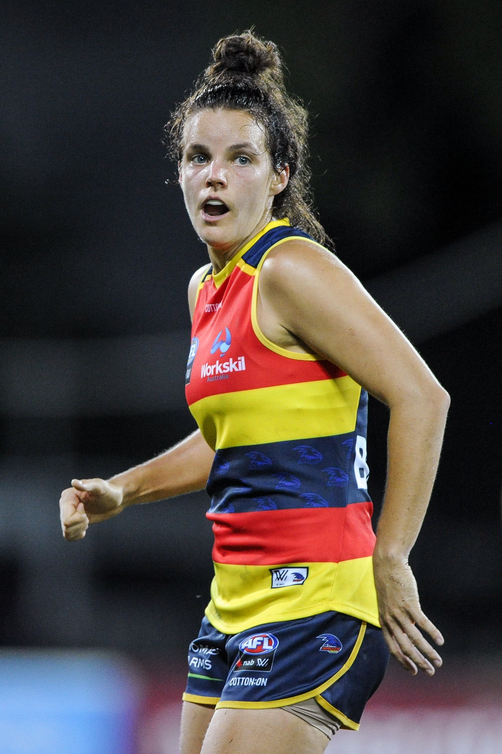 Sally Riley in the AFL Women's preseason match between the Adelaide Football Club and Fremantle Football Club on 20 January 2018 at TIO Stadium.